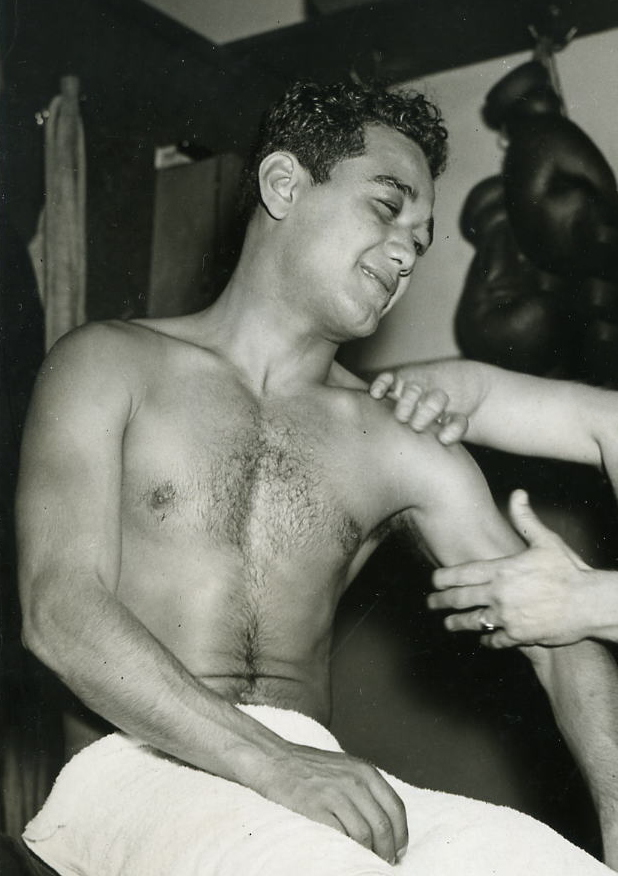 Sixto Escobar & Whitey Brimstein circa 1930 's Press Photo Bantamweight Champion